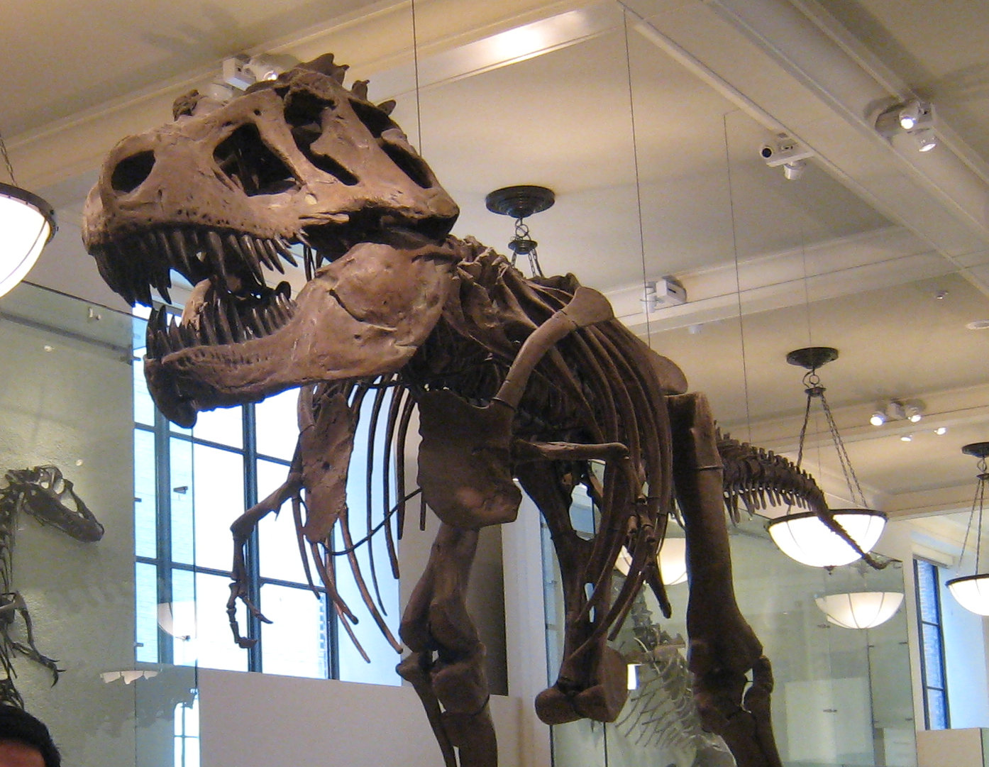 3/4 full length (1) view of the Tyrannosaurus Rex at the American Museum of Natural History